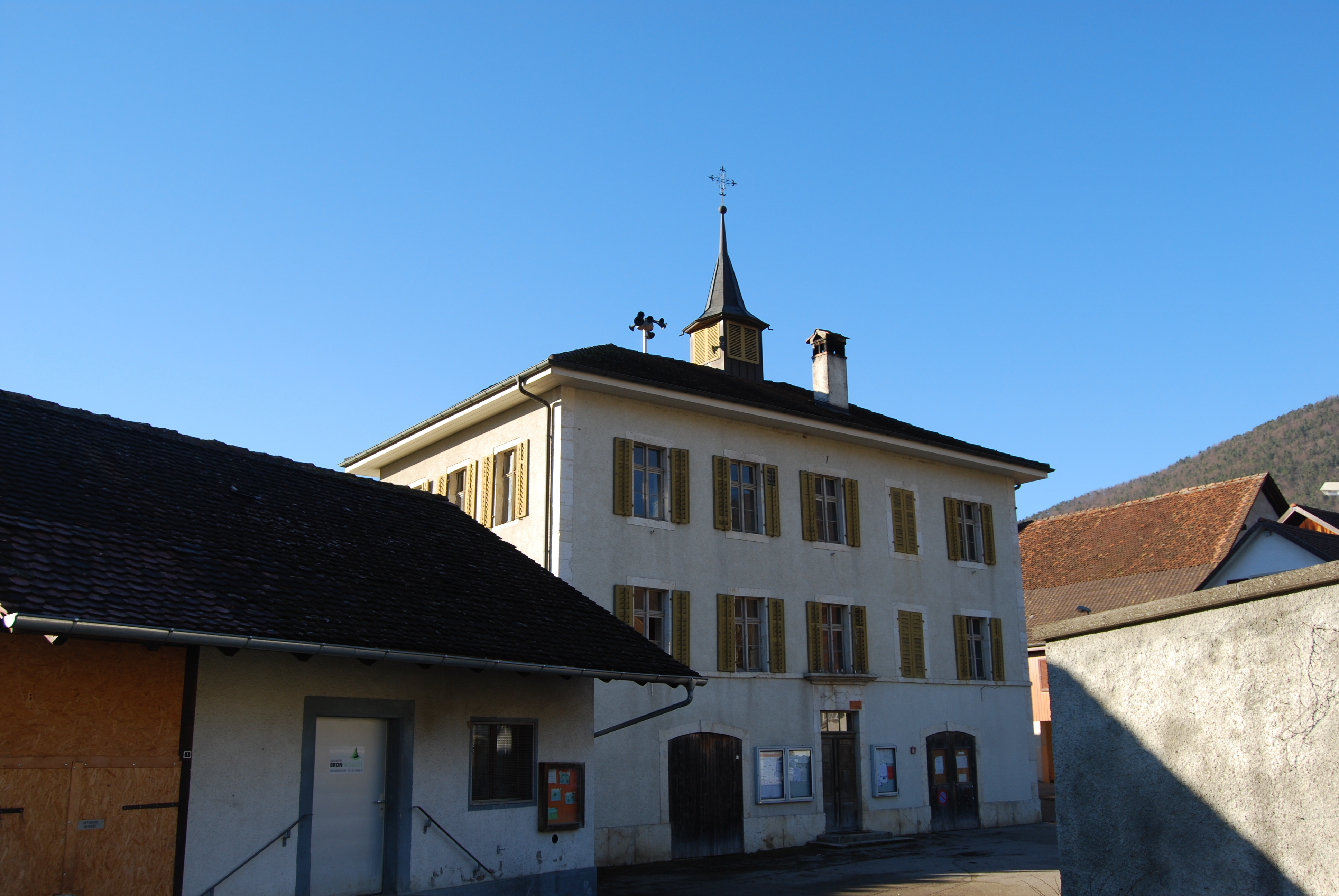 Montsevelier, canton of Jura, SwitzerlandEsperanto: Montsevelier, Kantono Ĵuraso, Svislando